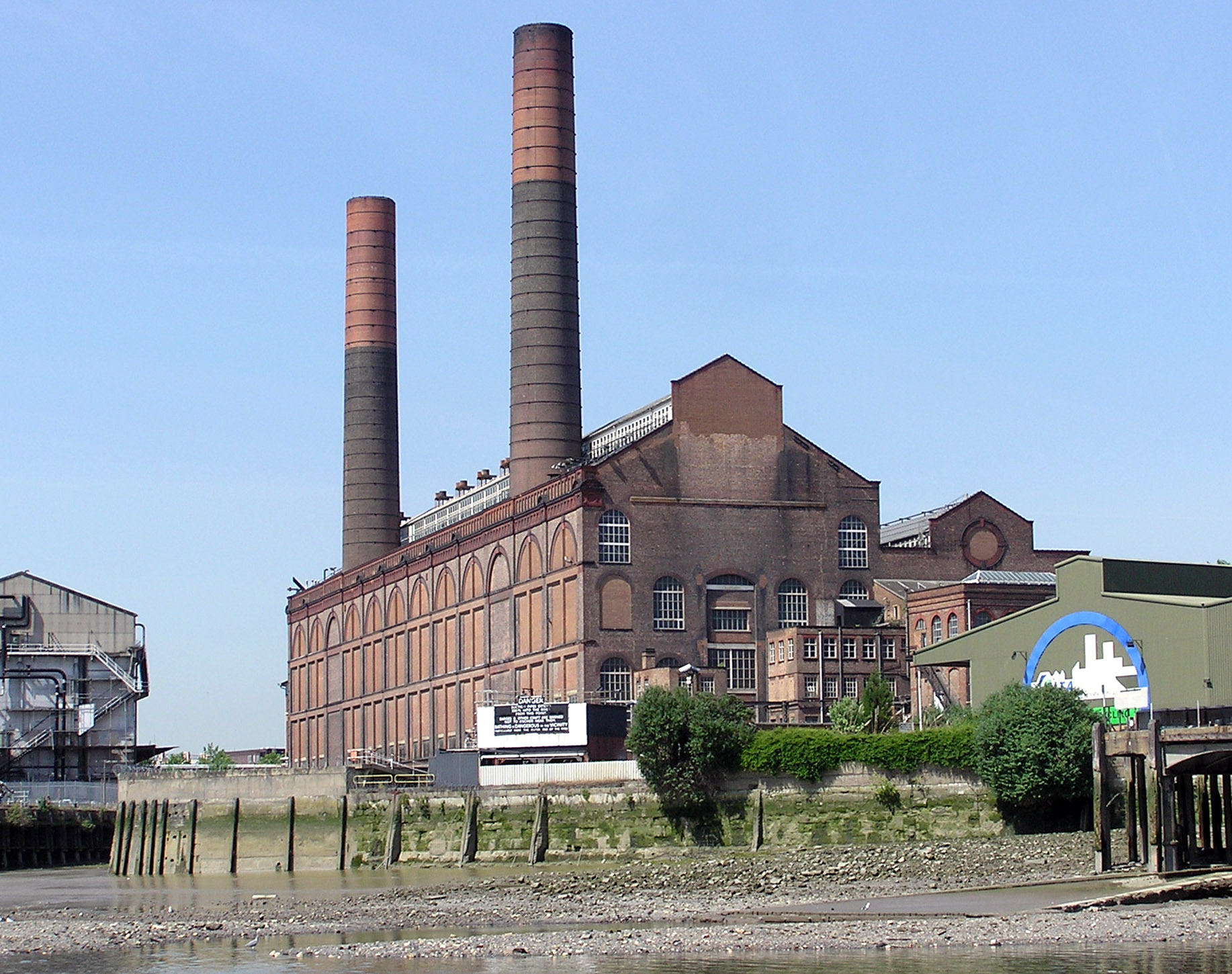 Lots Road Power Station, London, England. Photographed by Adrian Pingstone in June 2005 and released to the public domain.